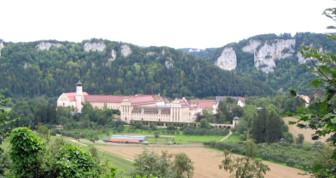 Beuron Archabbey, GermanyLatina: archiabbatia Sancti Martini Beuronenis, Germania